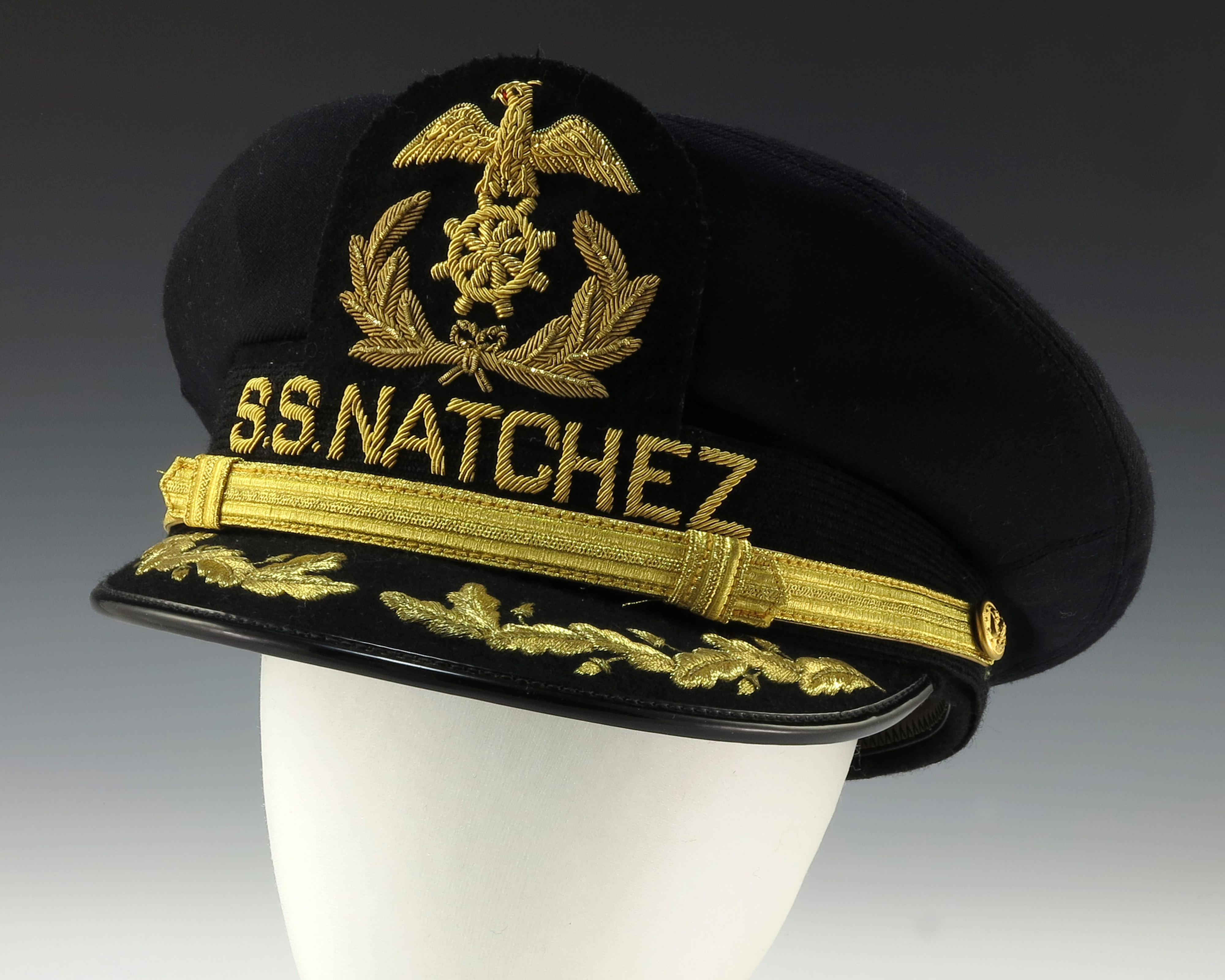 Black SS Natchez hat with gold thread embroidering and chinstrap. Includes a brown leather sweatband on the inside. Given to U.S. President Gerald Ford by the captain of the SS Natchez on September 25, 1976 during Ford's campaign trip down the Mississippi River. While on the campaign trip, which was about a month after Ford was nominated for re-election as President of the United States, Ford campaigned from the SS Natchez during the 6-hour Saturday cruise from Lutcher, Louisiana to Jackson Square, New Orleans,[1][2] a historic park in the French Quarter of New Orleans, Louisiana. From there, Ford planned to spend three days in the south appealing to Southern conservatism by depicting his opponent, Jimmy Carter, as a free-spending liberal.[1] The Natchez trip was key to Ford’s campaign strategy to garner votes in southern states.